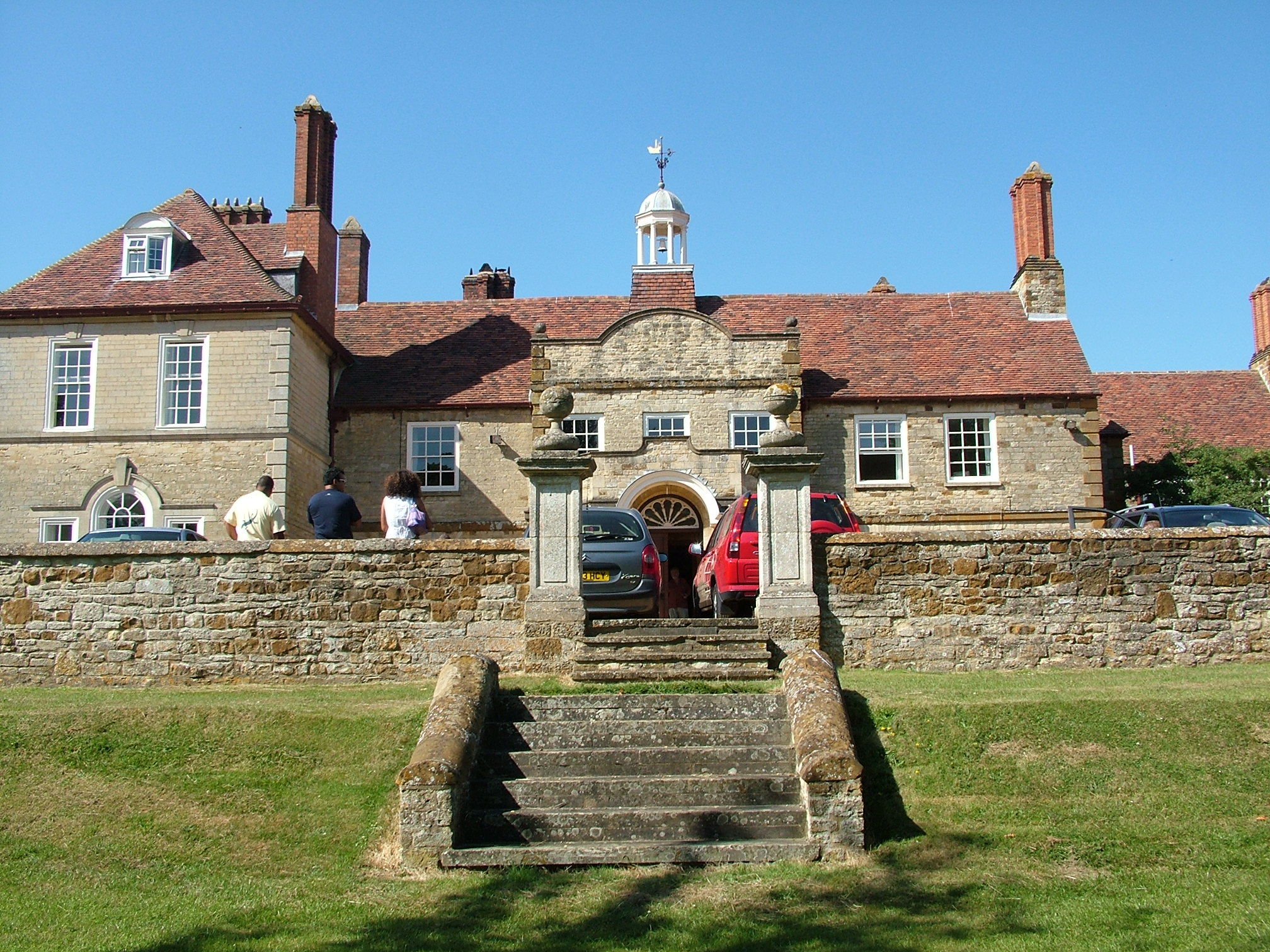 Potterspury Lodge School - Front entrance